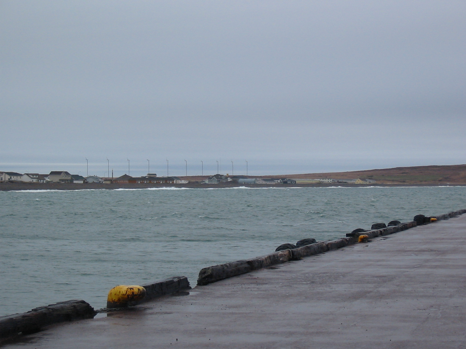 Picture of the wind turbines that provide power for the town of Miquelon. Saint Pierre et Miquelon May 15, 2008. World Wind Power Database indicates ten Vergnet GEV 15/60 wind turbines for a total nameplate capacity of 600 kW.